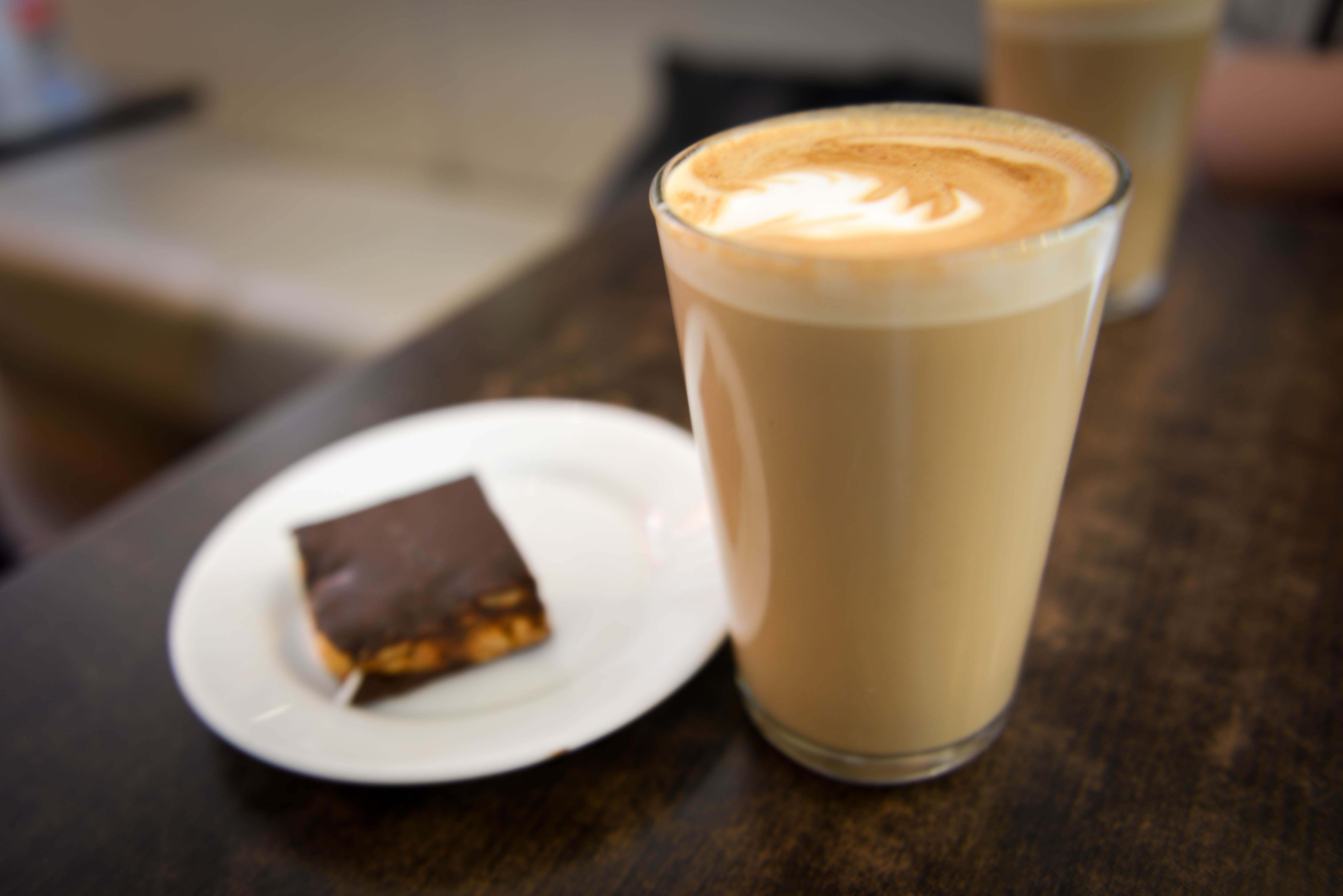 A glass of coffee latte and one pastry from a local café.